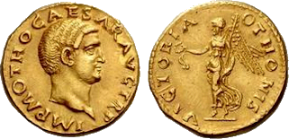 Aureus of Otho, 7.35 g